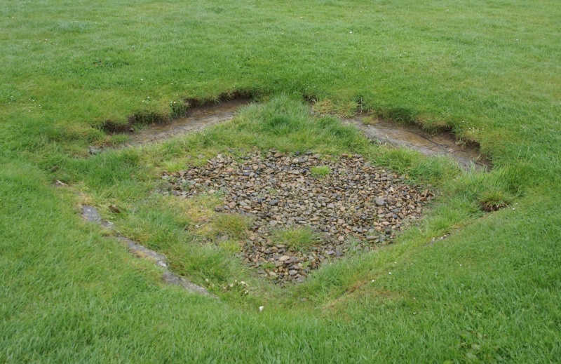 Stones of Stenness, Mainland, Orkney, Scotland. Hearth.